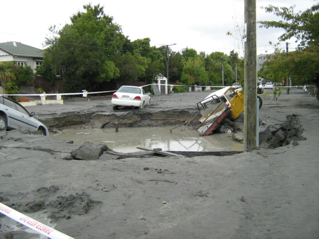 Within hours after the ChristChurch (New Zealand) earth quake huge holes opened up in swallowing anything that stood in their way and all around me there was silt spouting up out of the ground.